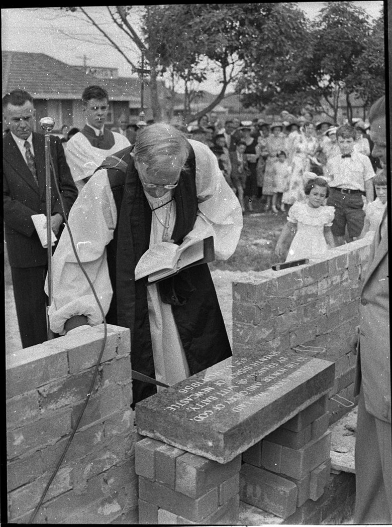 St George Anglican Church, Hamilton: stone laid by Bishop of Newcastle (Rt. Rev. F. de Witt Batty)